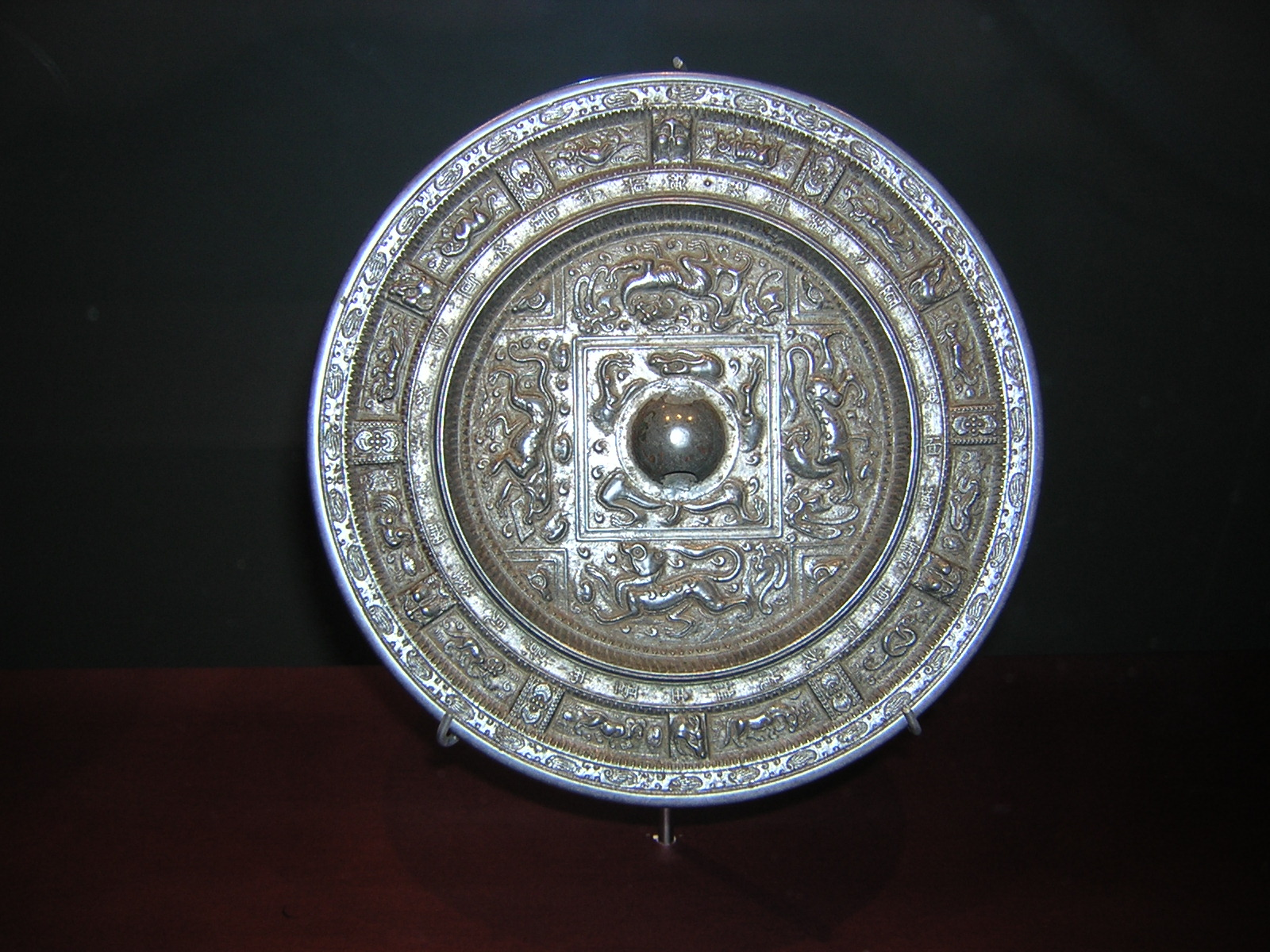 Mirror with the twelve divisions of the Chinese Zodiac. Sui dinasty (581 - 618 AD). Bronze. Belongs to the Guimet Museum (Paris).